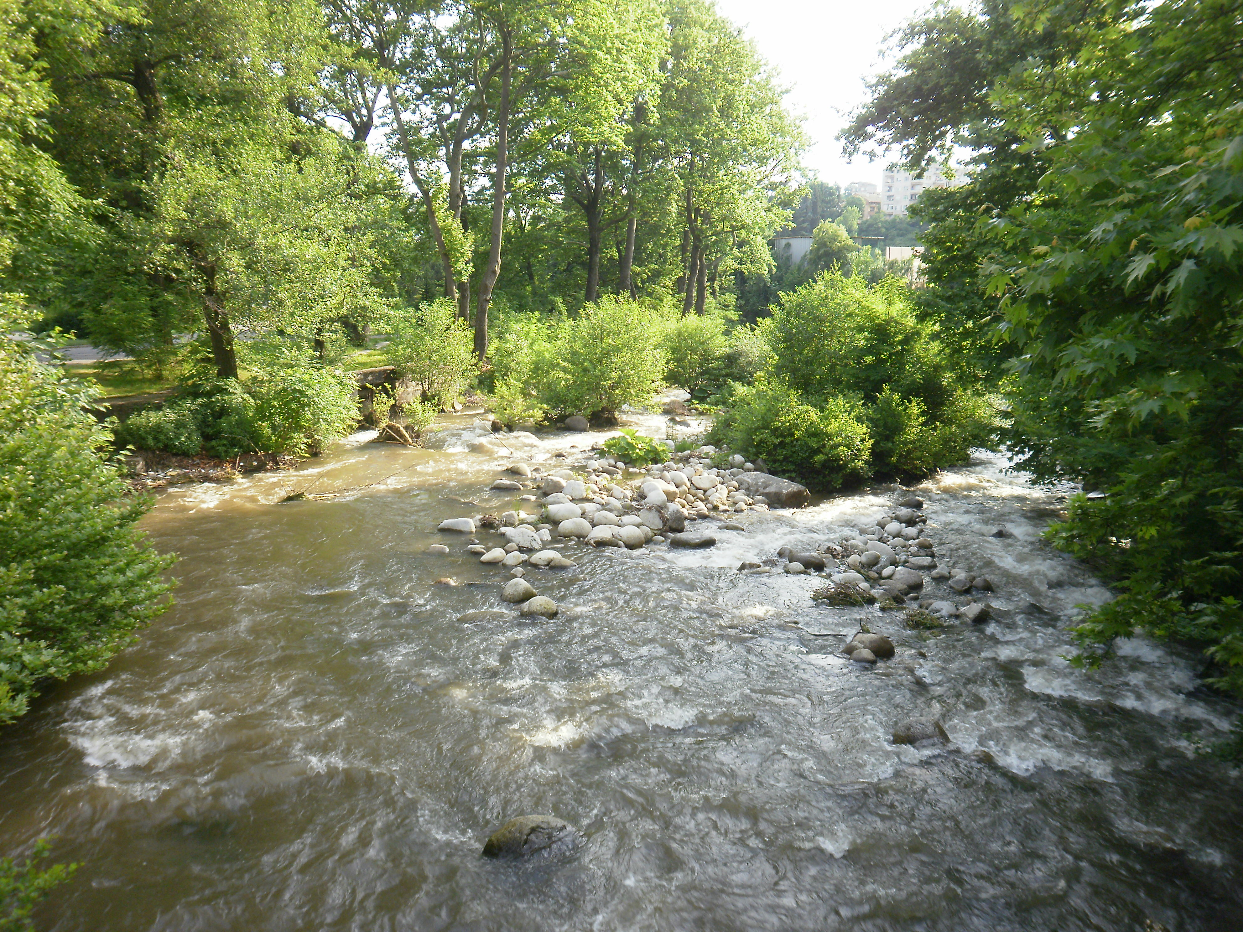 Sandanska Bistritsa River, Sandanski, Bulgaria.